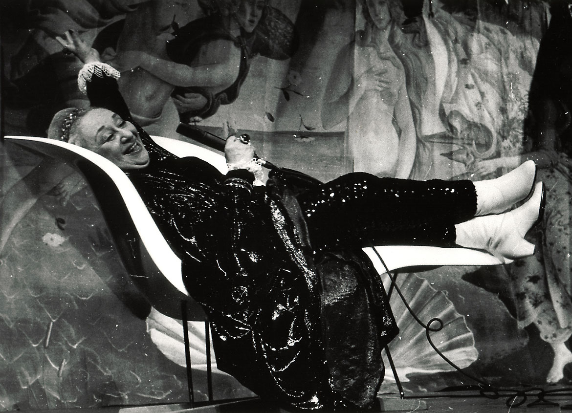 German actrice, author, and singer Lotti Huber, 1912-1998